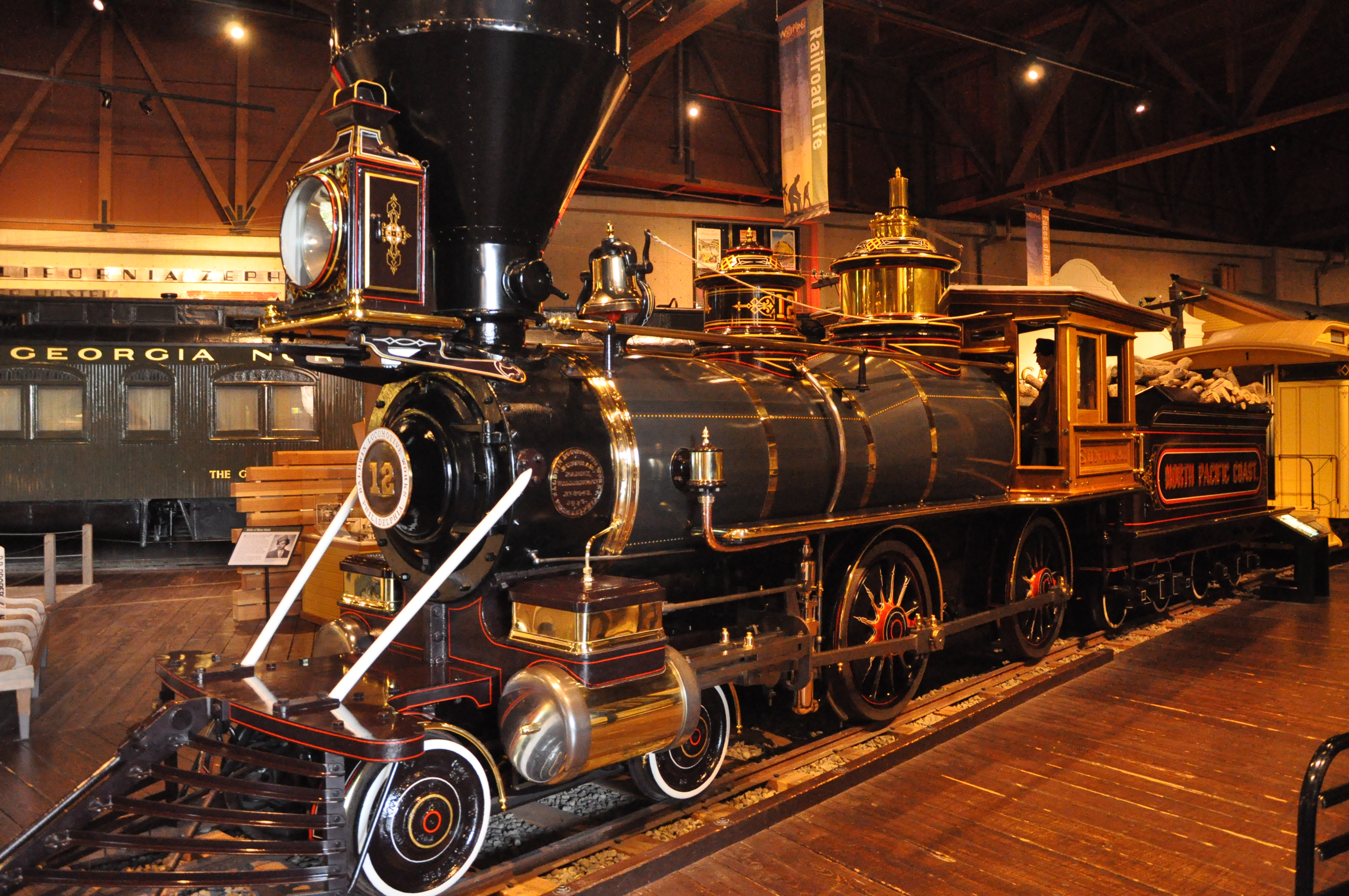 North Pacific Coast Railroad #12 "Sonoma " - Baldwin-built 4-4-0 type constructed in 1876. Currently on static display at the California State Railroad Museum in Sacramento, California, but in operable condition.